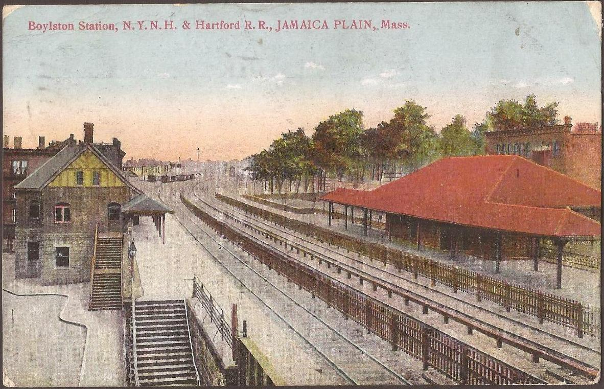 Early divided back postcard of Boylston station